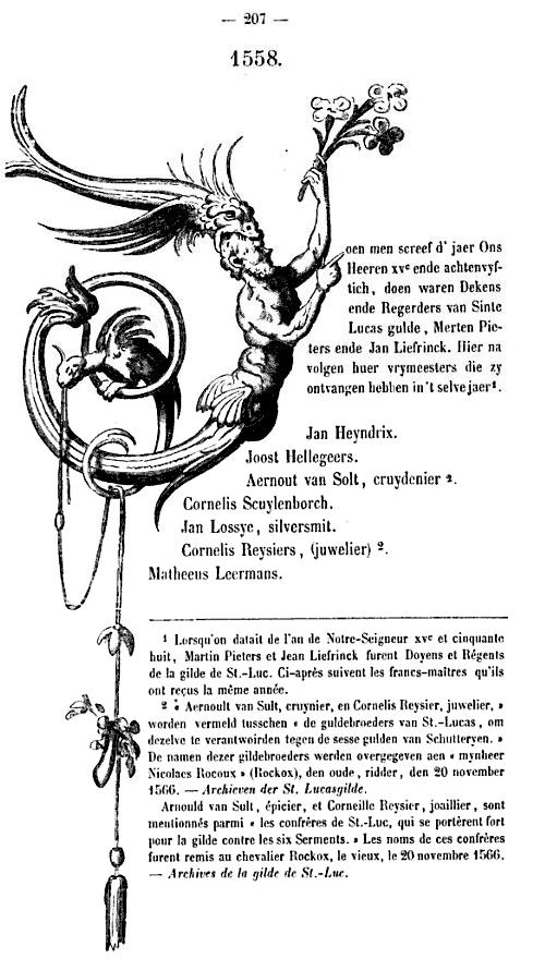 Page of De Liggeren, from 1872 with transcription from the Antwerp Guild of St. Luke archives from 1558